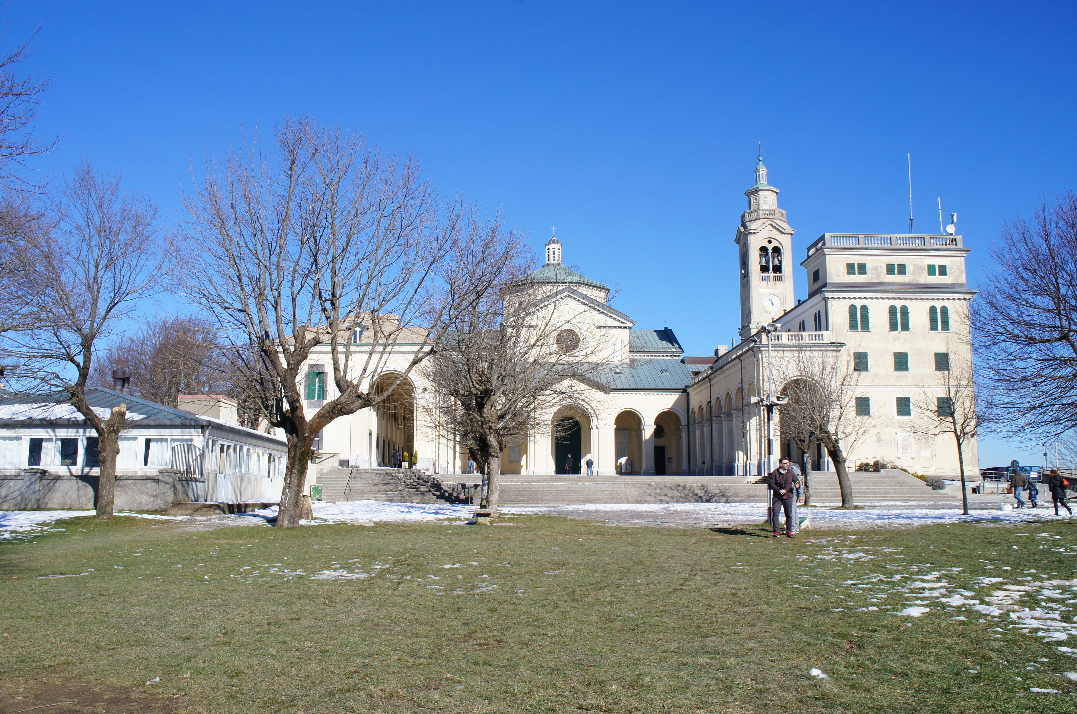 Shrine of Nostra Signora della Guardia in Ceranesi, near Genoa